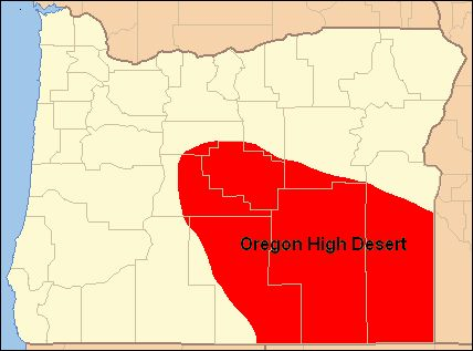 Map of the of the High Desert of Oregon — in southeastern Oregon. Covering much of Crook, Deschutes, Harney, Lake, and Malheur Counties in Oregon. The moister northern High Desert region is part of the Columbia Plateau. The dryer southern High Desert region is part of the Great Basin region of Oregon.